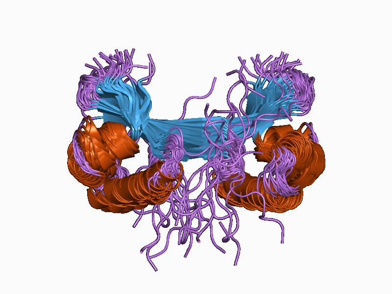 Cartoon representation of the molecular structure of protein registered with 1cop code.